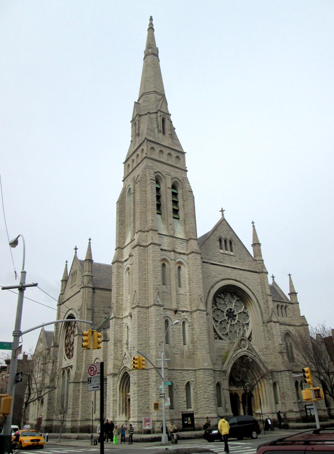 The Old First Reformed Church at 126 7th Avenue at Carroll Street in the Park Slope neighborhood of Brooklyn, New York City, was built in 1888-1893 and was designed by George L. Morse in the Late Gothic revival style. (Source: AIA Guide to NYC (5th ed.))